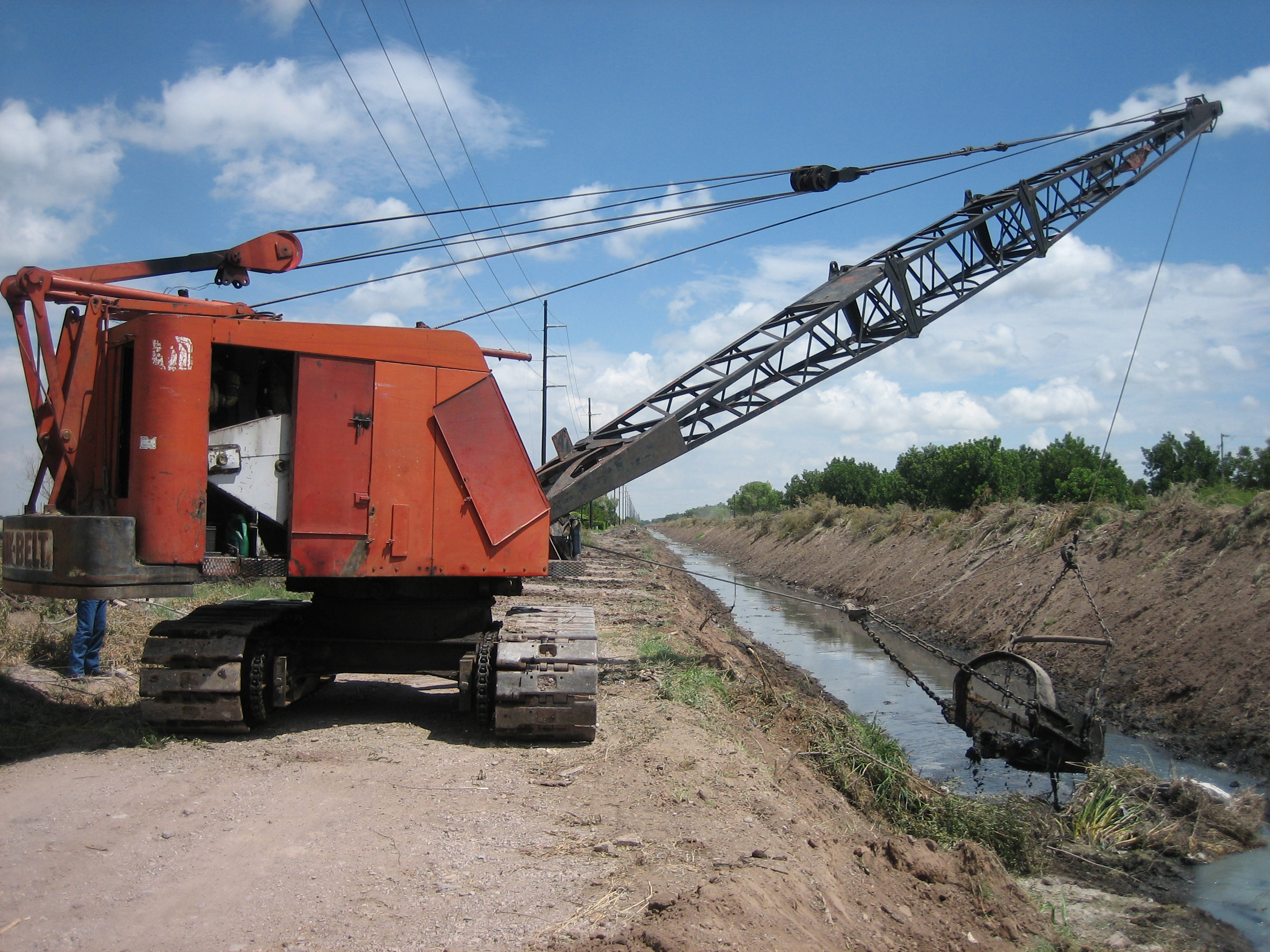 Chain excavator.